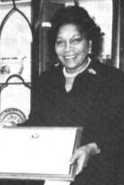 An African-American woman, smiling, holding an award plaque. She is wearing a dark business suit.